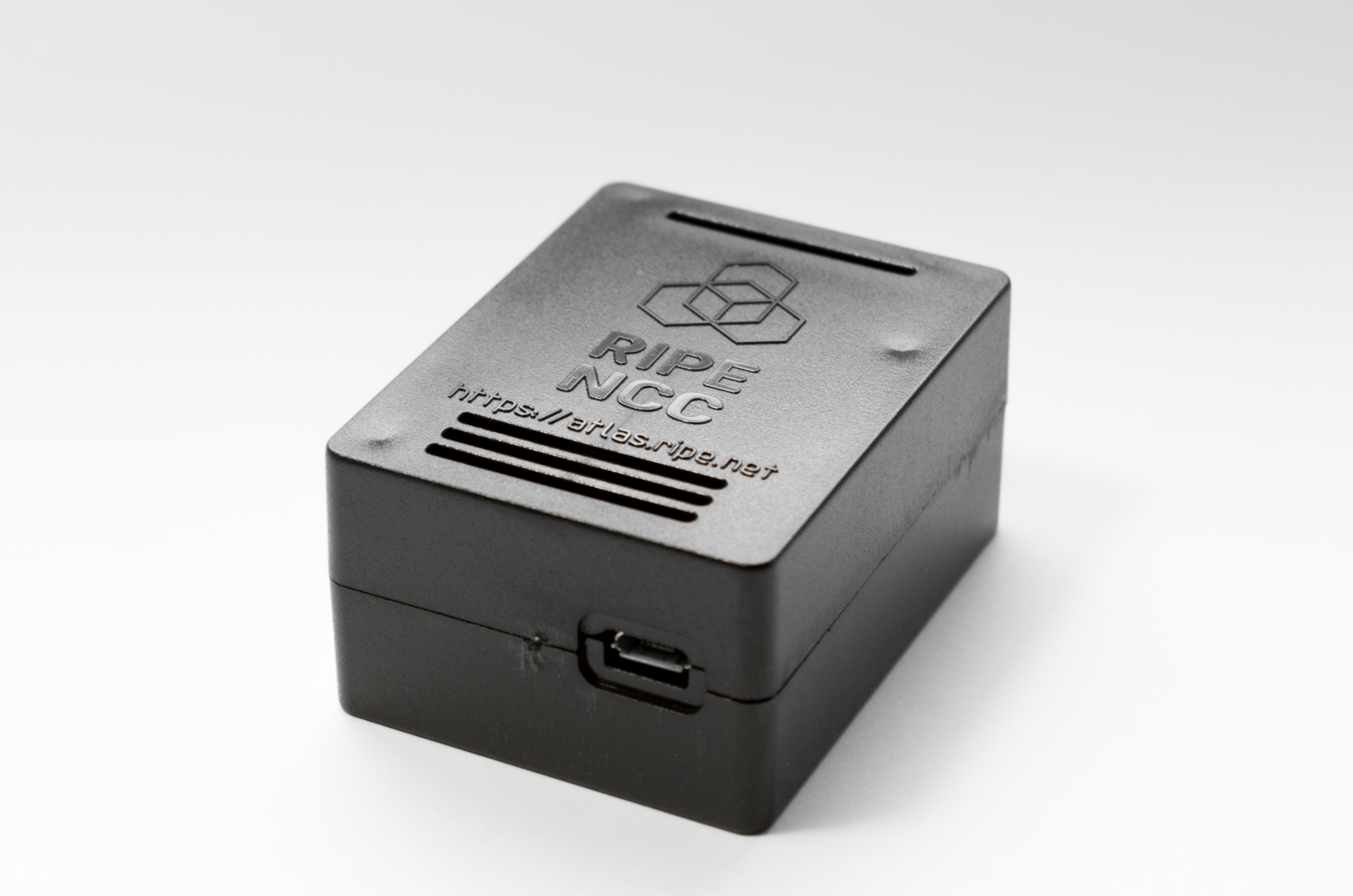 RIPE Atlas version 4 probe. The hardware of the probe is a NanoPi NEO Plus2 single-board computer in a black plastic case.